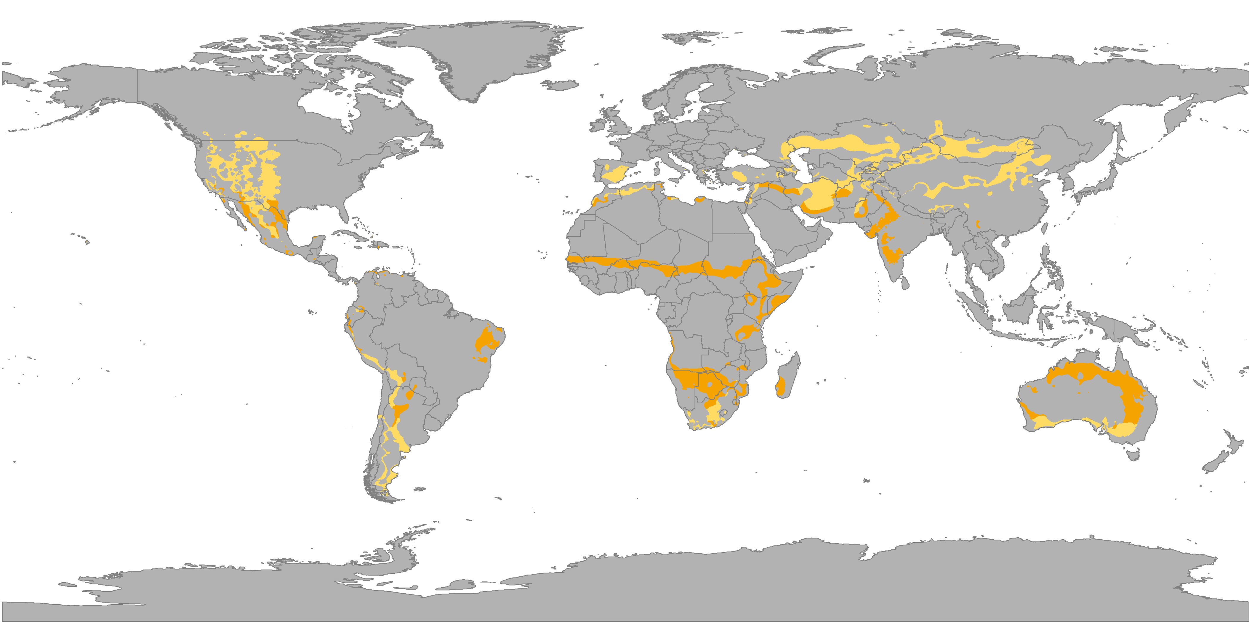 Regions with a semi-arid climate, according to the Köppen climate classification